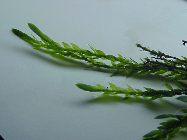 Species: Fontinalis antipyretica Family: ' Image No. 1